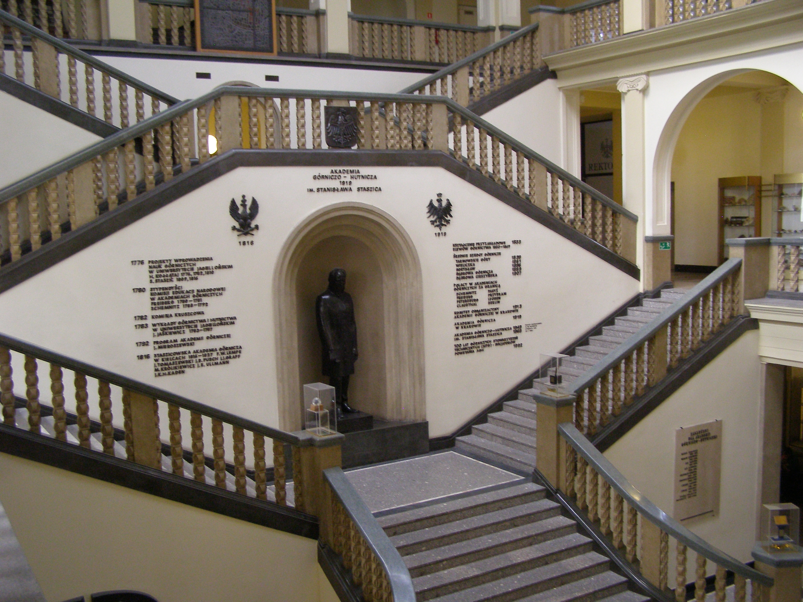 Kraków - AGH University of Science and Technology - main building hall